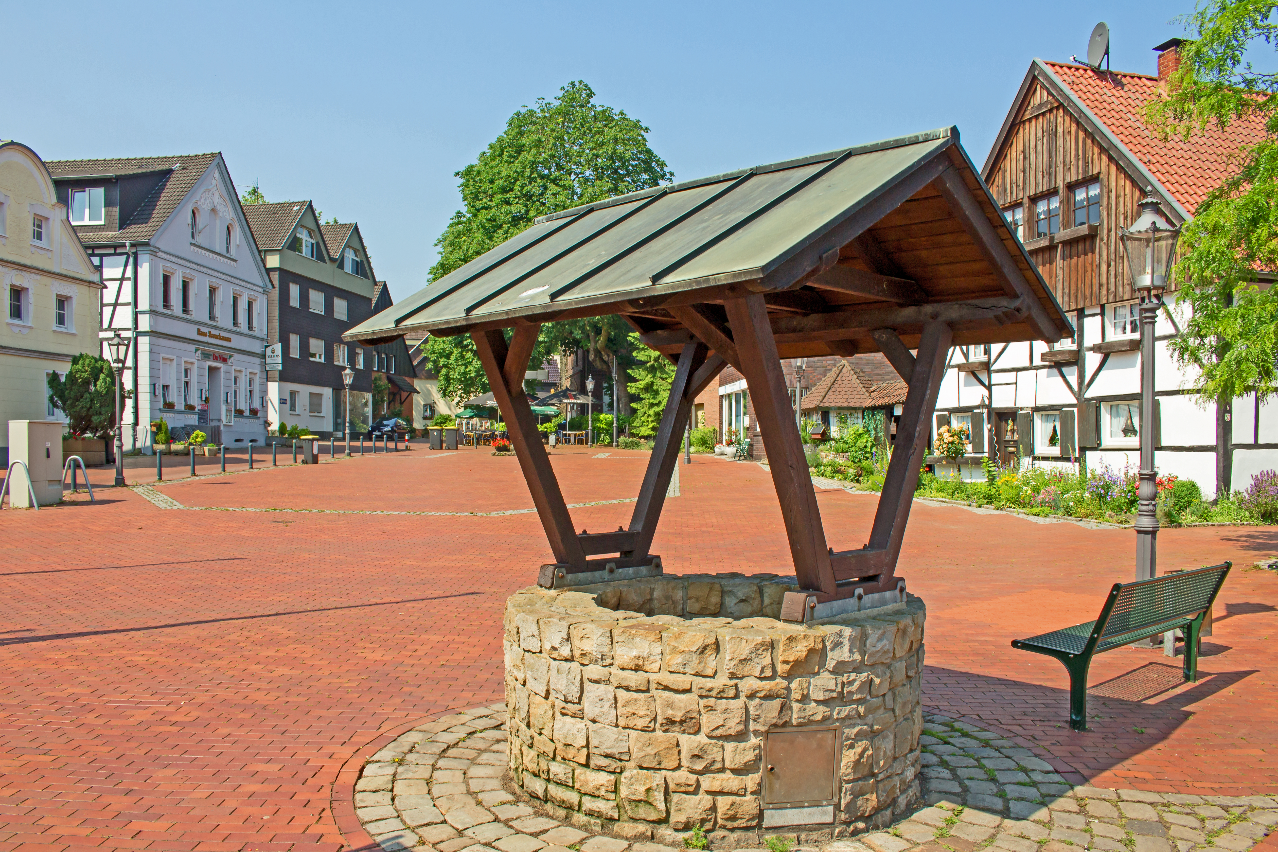 village square with well at Suderwich - Recklinghausen, North Rhine-Westphalia, Germany